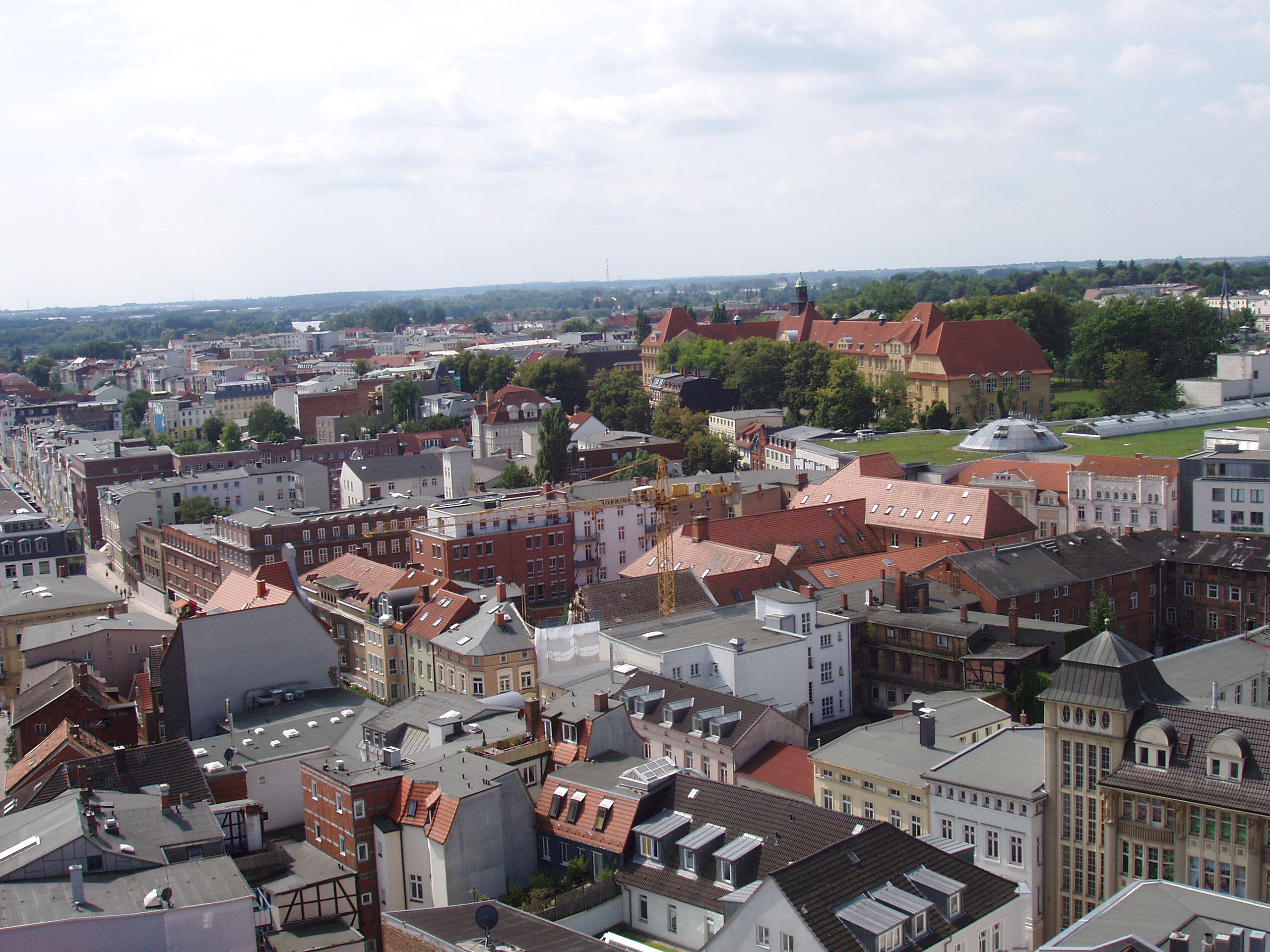 view from cathedral, Schwerin, Germany, direction south west south